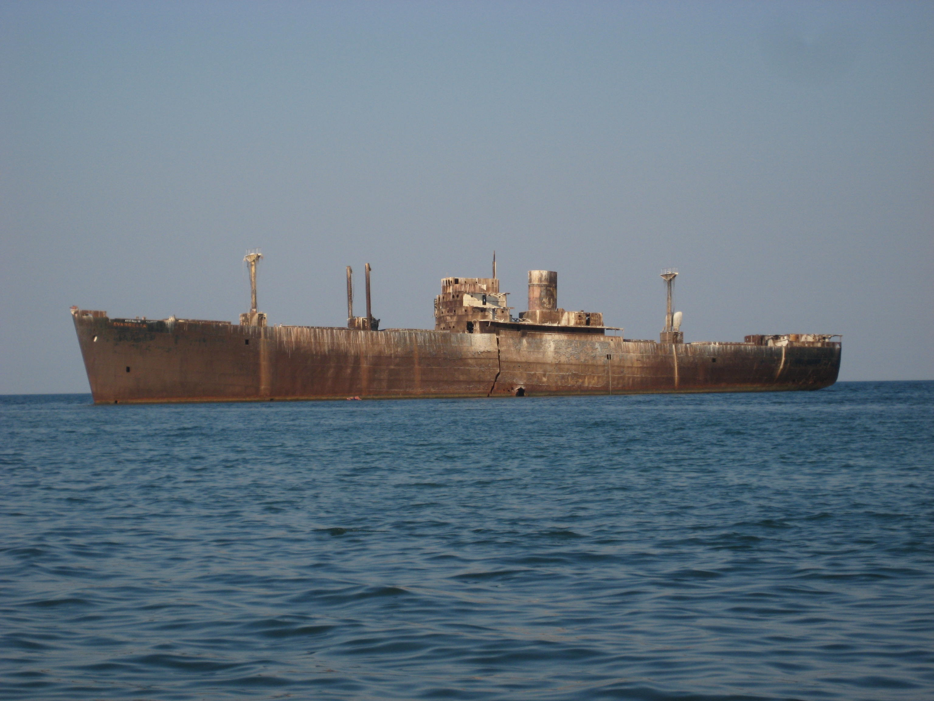 The wreck of E Evangelia, a Greek-owned refrigerated cargo ship built in Belfast in 1942 as Empire Strength and beached in Costineşti, Romania in 1968